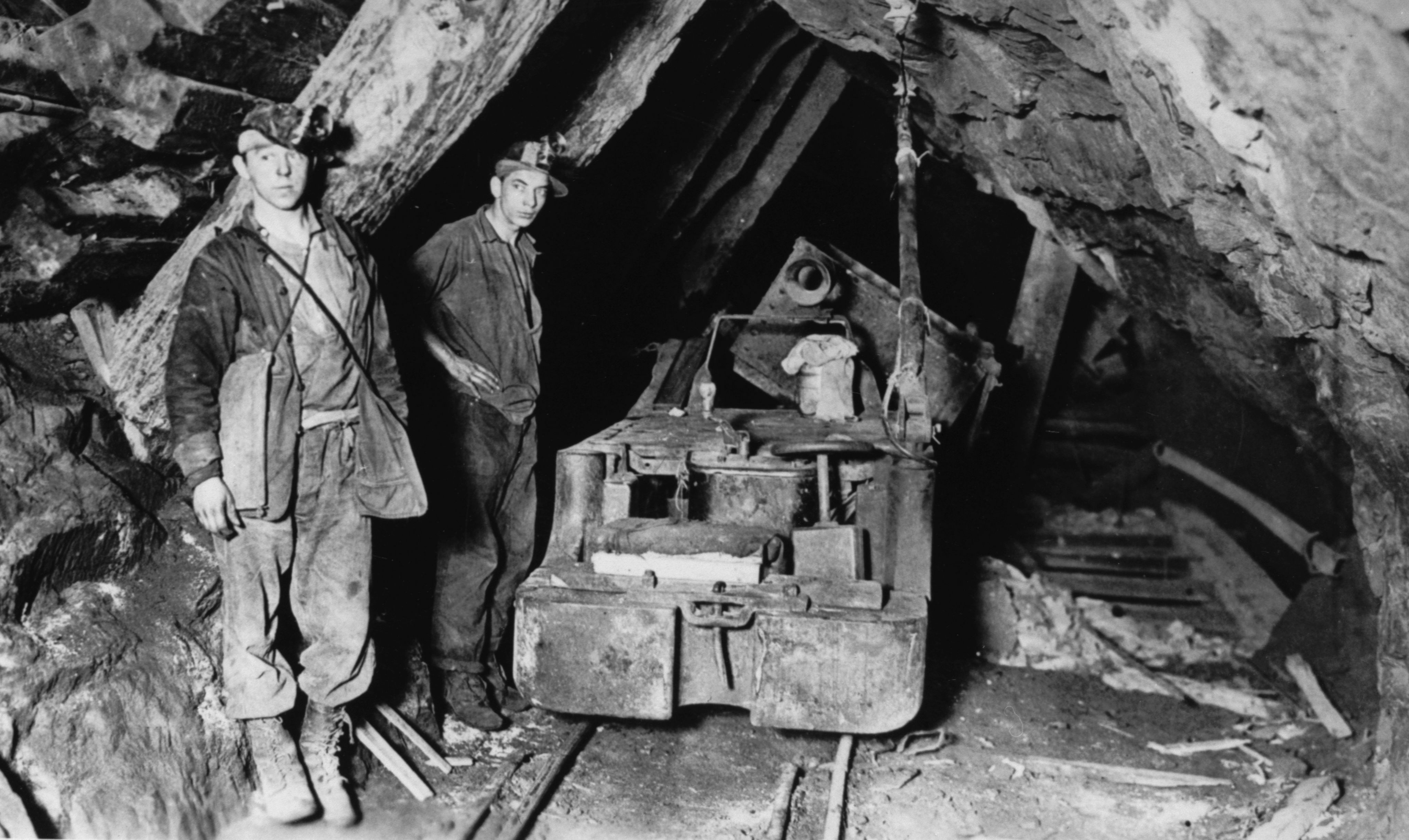 UNDERGROUND VIEW SHOWING ELECTRIC HAULAGE LOCOMOTIVE IN A DRIFT. FOOT WALL ON LEFT; HANGING WALL ON RIGHT. C. 1920. HAER MICH,31-HANC,1-120